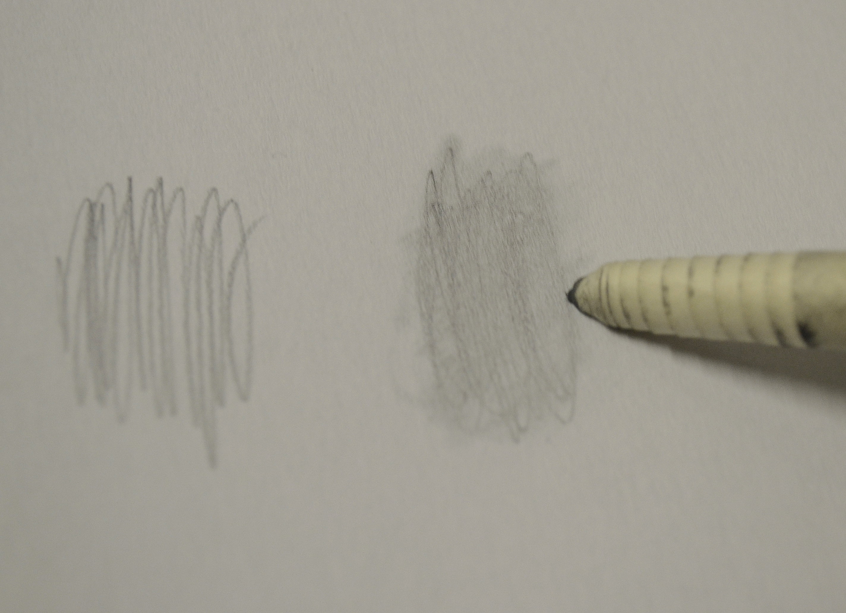 A tortillon being demonstrated. The left scribbles were untouched while the ones on the right were smudged together.